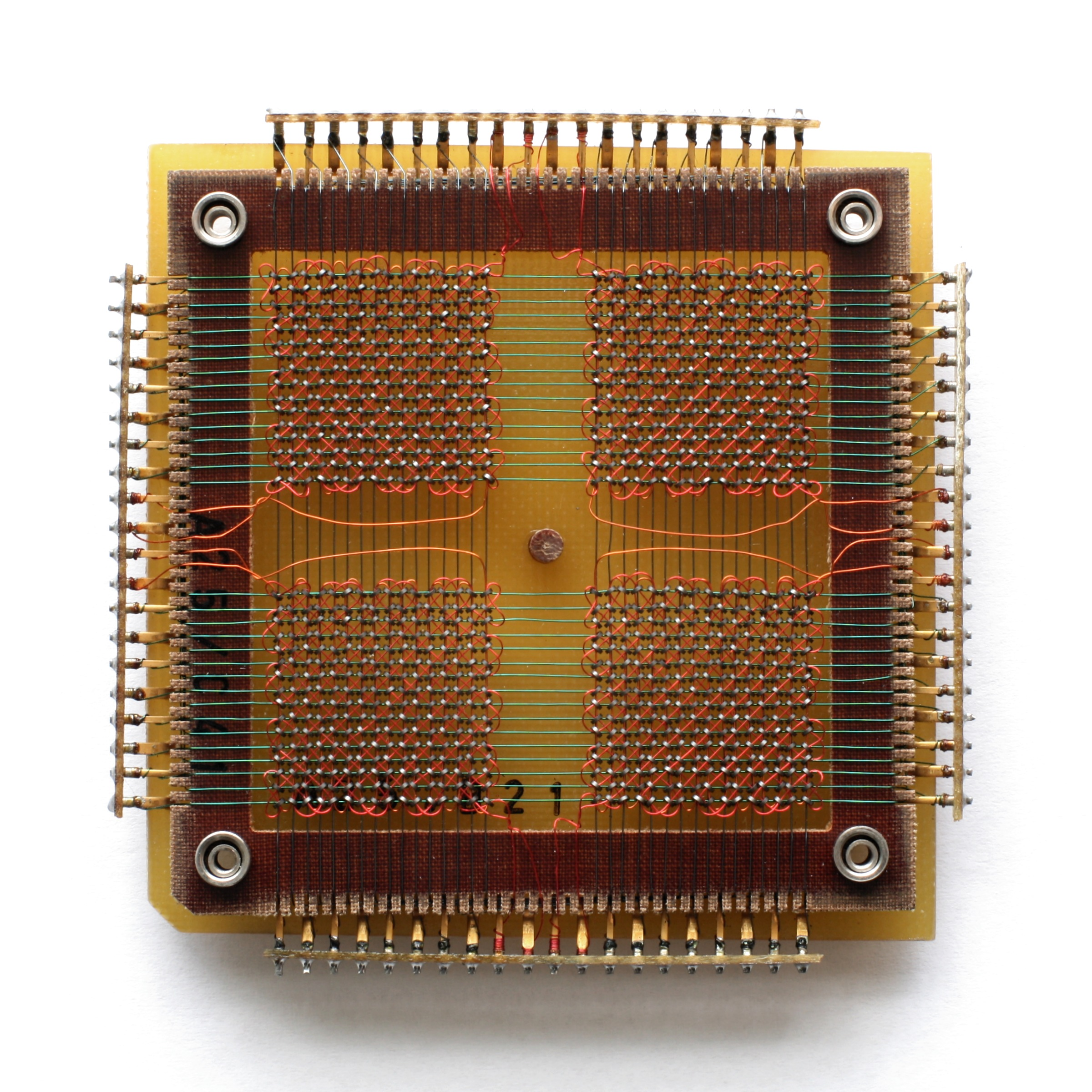 Core Memory Module